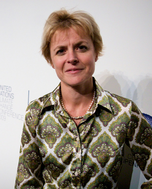 Lykke Friis, danish Minister of Climate and Energy.